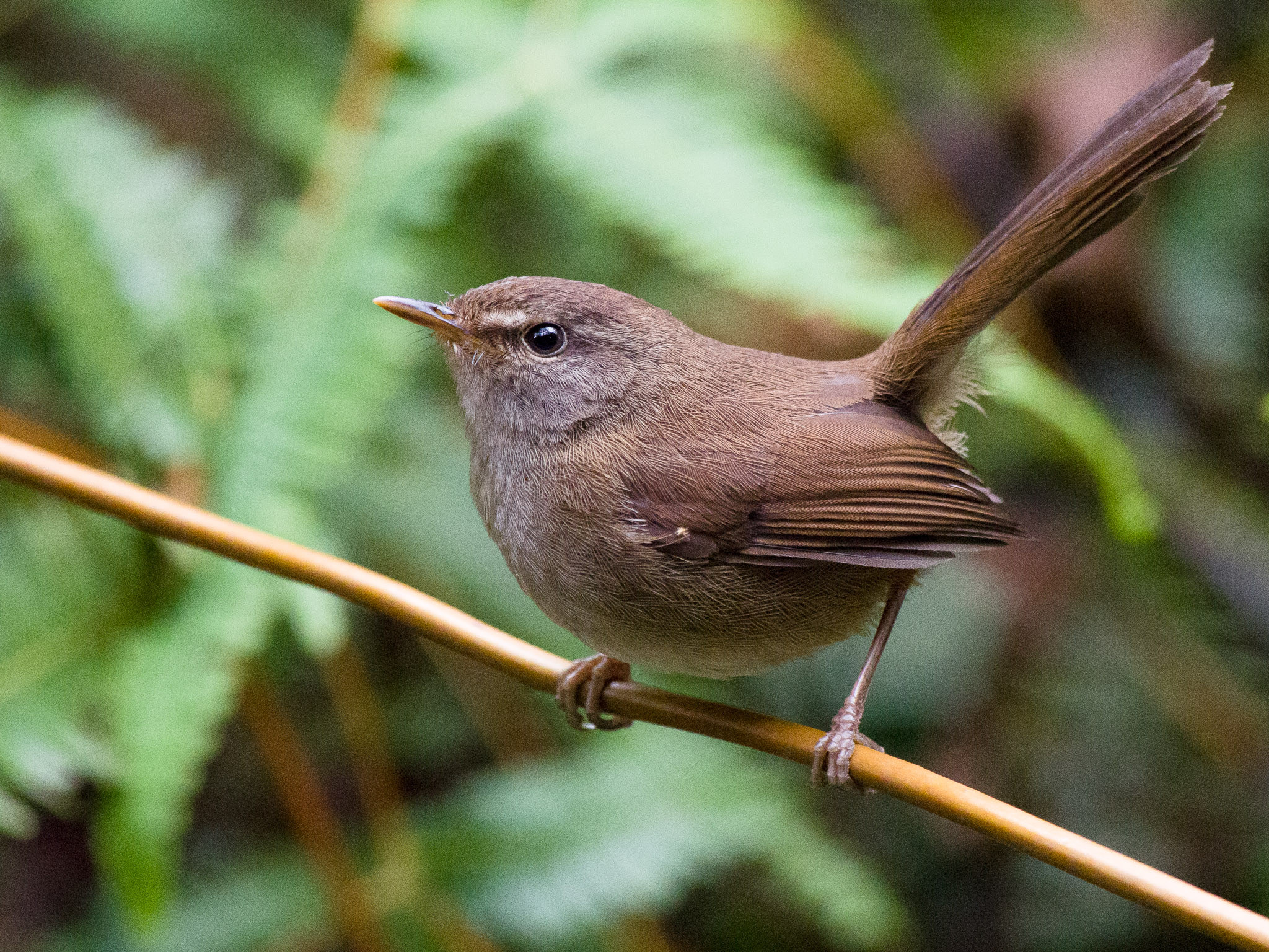 A very friendly Bush Warbler (albeit not a Friendly Bush Warbler).